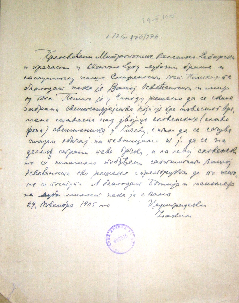 Letter from Joachim, Patriarch of Constantinople, for Polikart, Veles-Debar metropolitan, in which he announces the decision of the Synod that allows two Slavic priests in Kicevo to perform services in left side of chanters. (Istanbul, 29 November 1905) This media file is produced by Wikipedian in Residence in Category:Wikipedian in Residence at DARM in 2016.